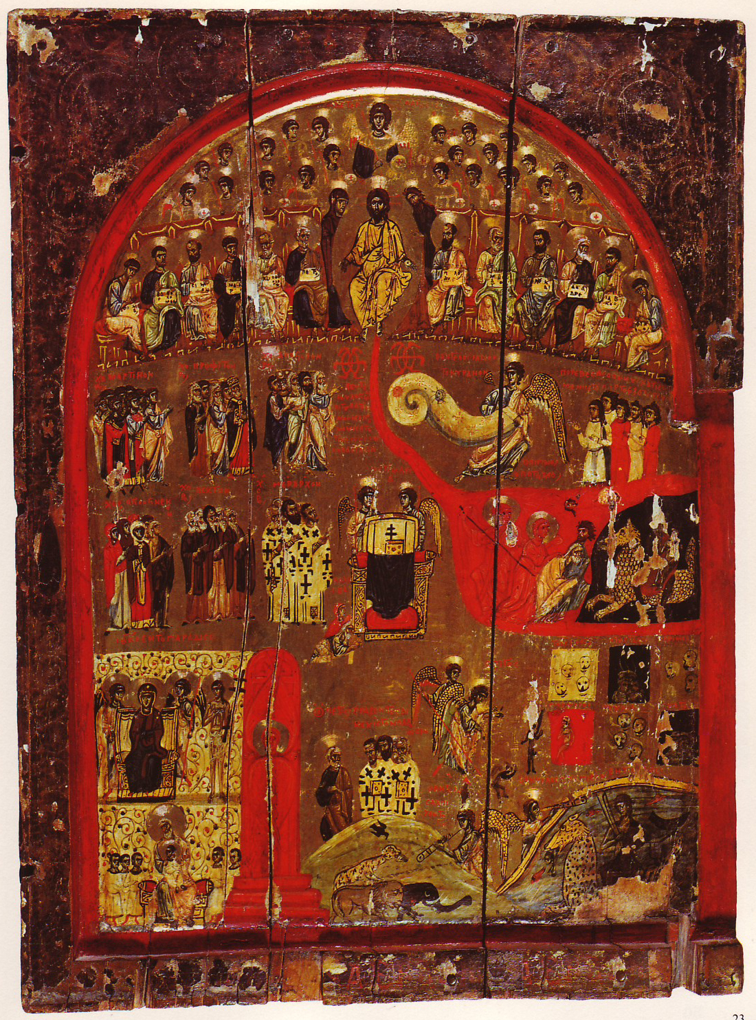 The Last Judgement: Icon from a tetraptych, middle of the 12th century. 62.2 x 45.8 cm